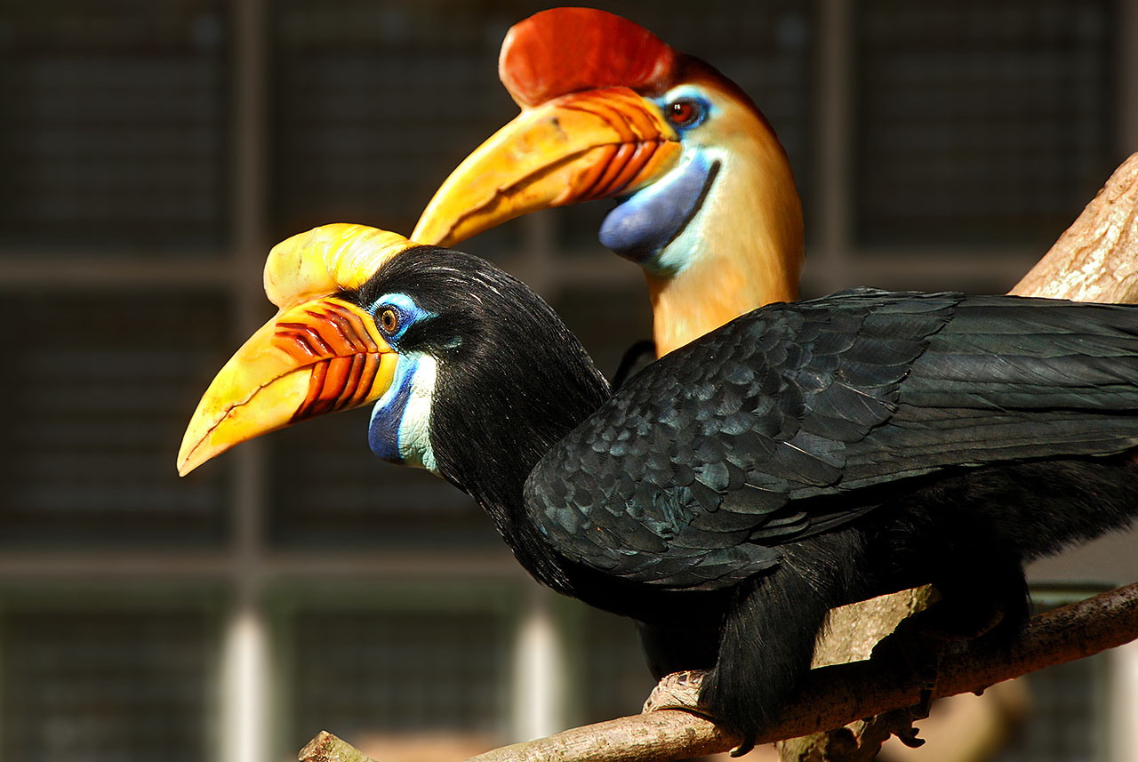 A pair of Knobbed Hornbills (also known as Sulawesi Wrinkled Hornbill) at Walsrode Bird Park, Germany. The female is in the foreground and the male is behind.